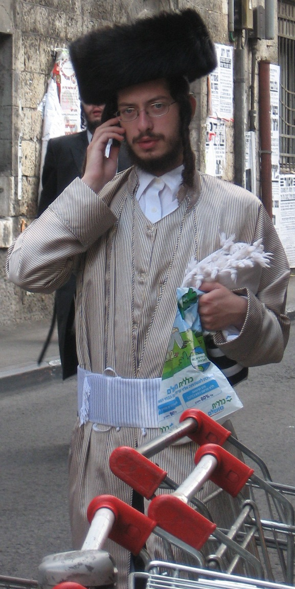 Based on [1]